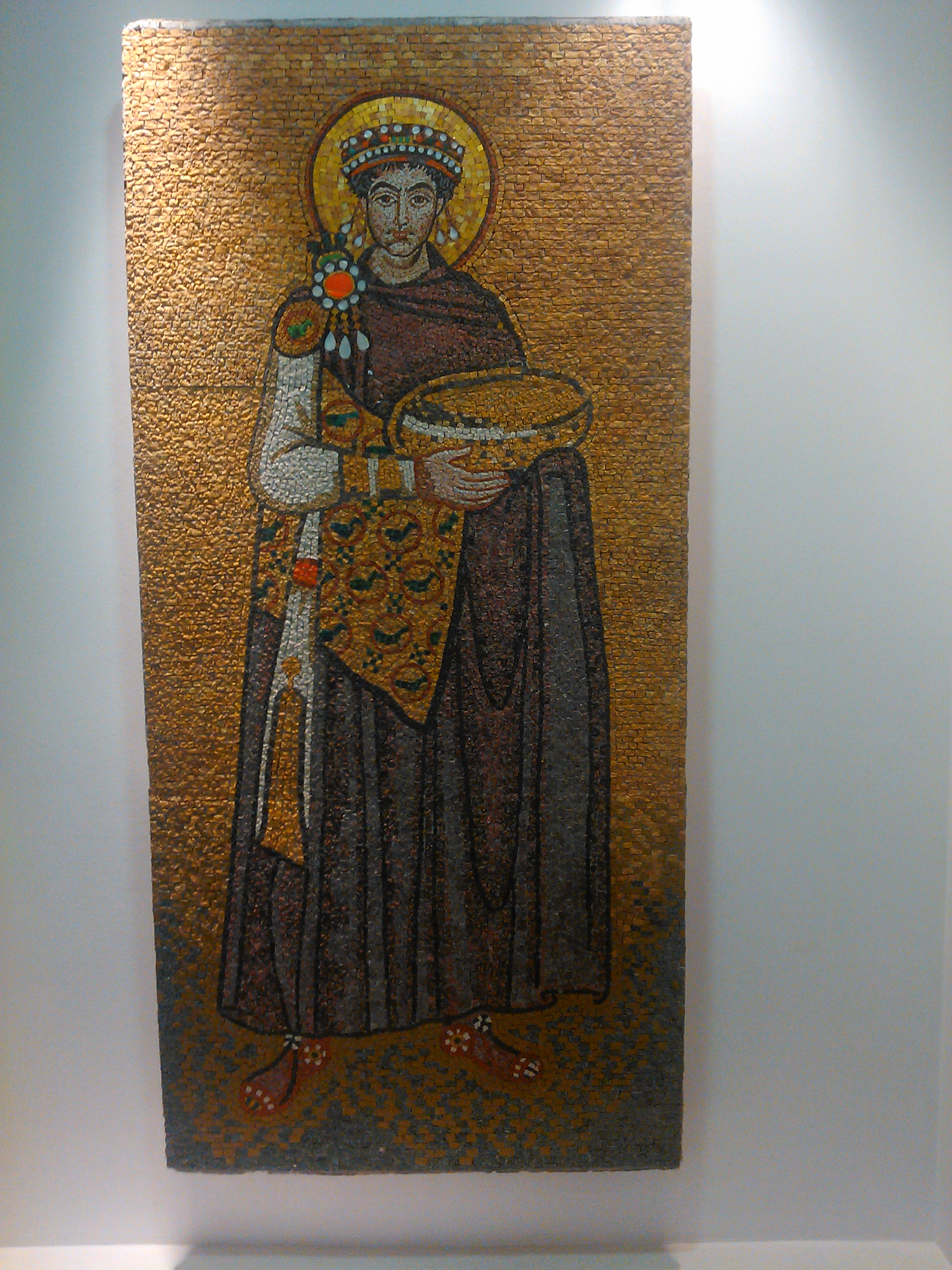 Emperor Justinian I. Copy of the mosaic at the Church of San Vitale in Ravenna. Srpski (latinica): Car Justinijan I. Kopija mozaika iz crkve San Vitale u Raveni.